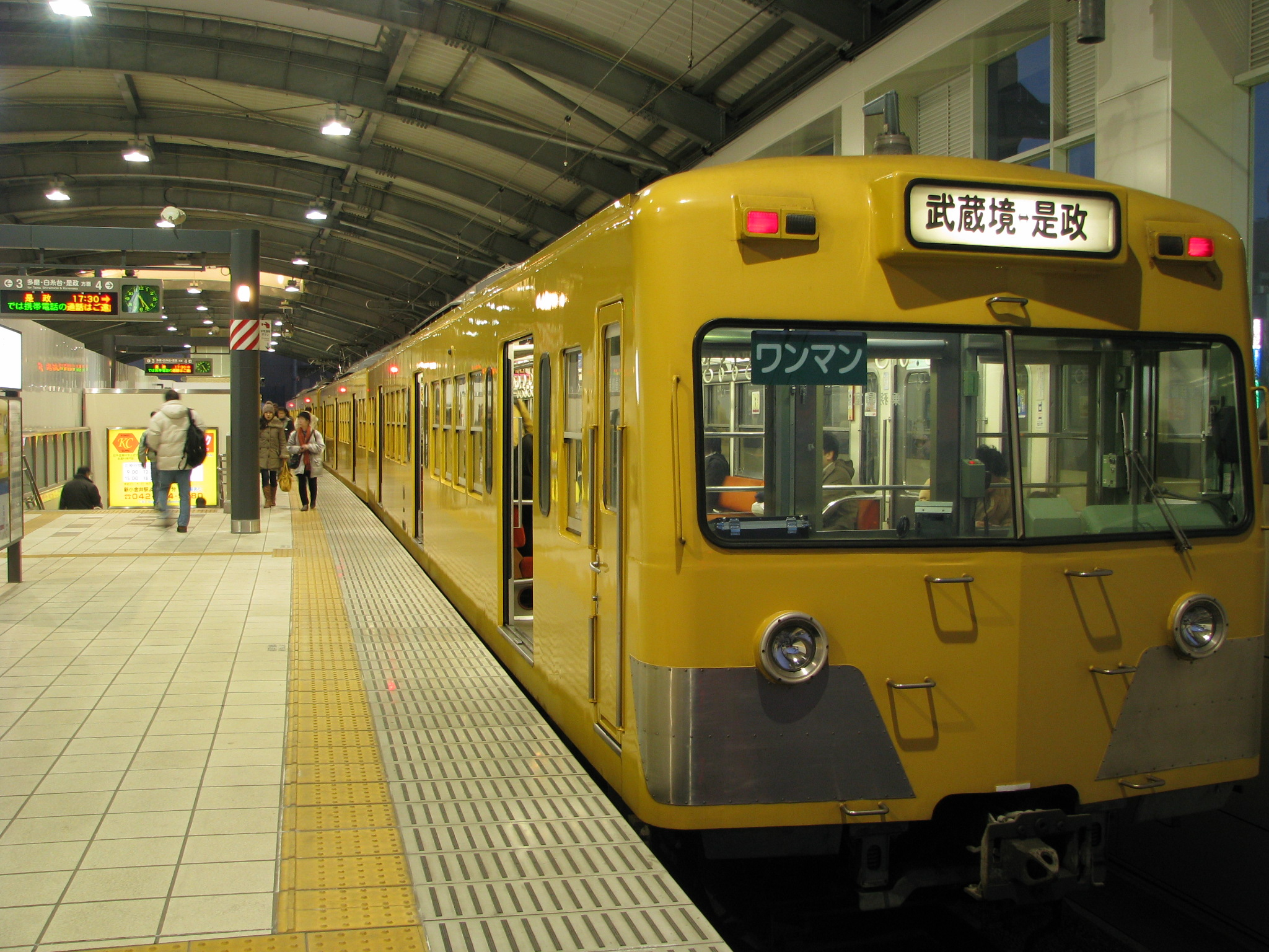 Raised Platform of Tamagawa Line, Seibu Musashi-Sakai Station